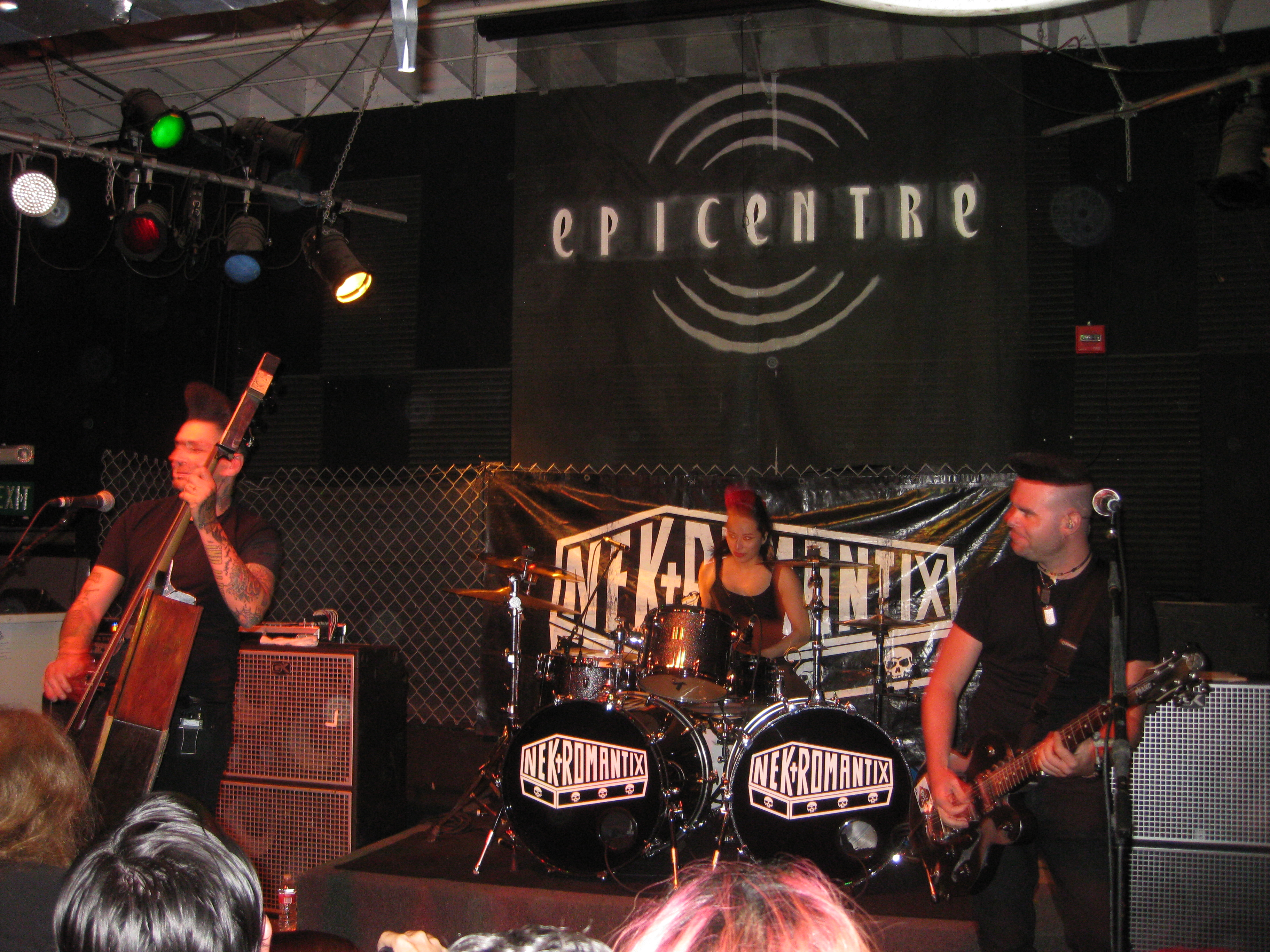 Psychobilly band the Nekromantix performing in San Diego, California on August 13, 2011. Left to right: Kim Nekroman (bass guitar, lead vocals), Lux (drums), and Francisco Mesa (guitar, backing vocals).